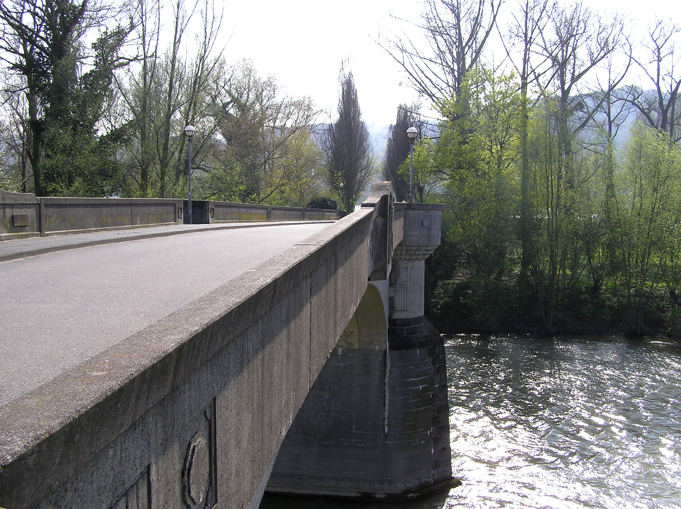 Northern bridge to the island Grafenwerth in the Rhine, Germany. Since 2005 its official name is Grafenwerther Brücke (Grafenwerther Bridge).